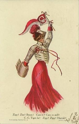 Postcard of a Cornell University Cheerleader from 1906. At the bottom is a cheer apparently used by Cornell fans